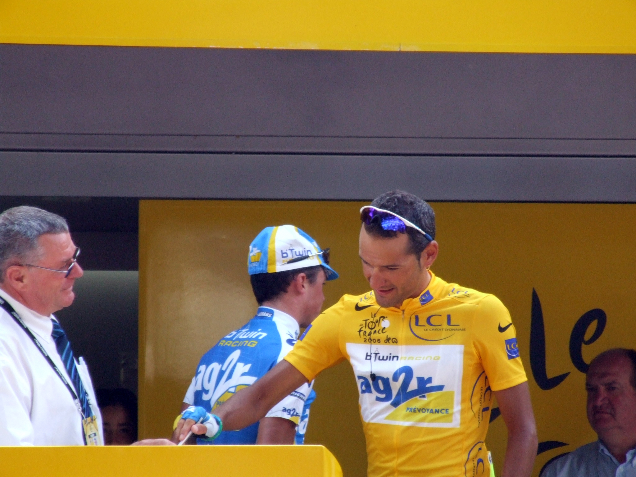 Cyril Dessel in the Yellow Jersey. Picture taken at the Tour de France stage 11 in Tarbes.